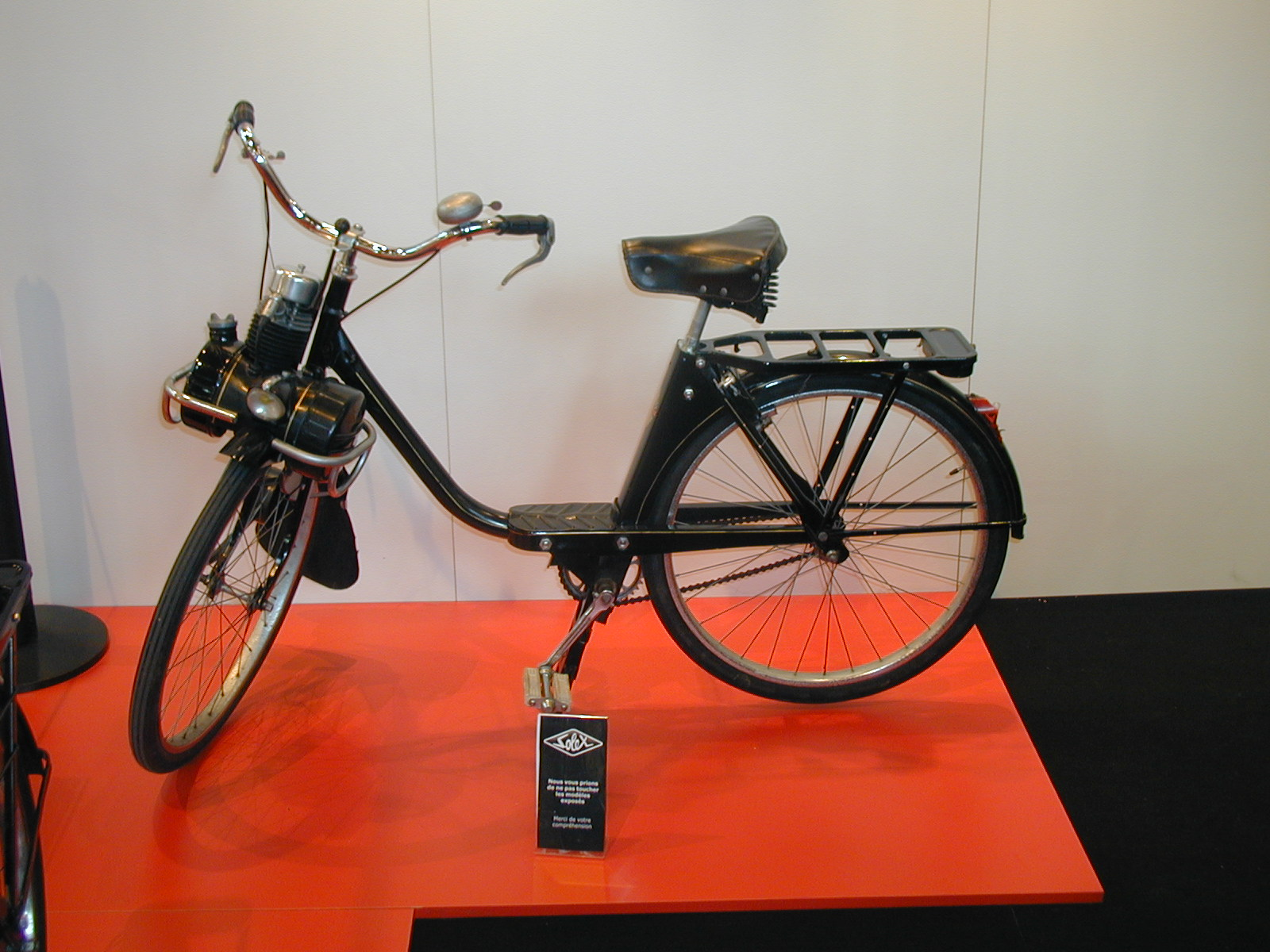 Velosolex 1010 (1957)